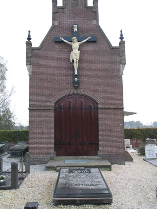 Lycklama's burial chapel at Wolvega cemetary (Frisia, The Netherlands)